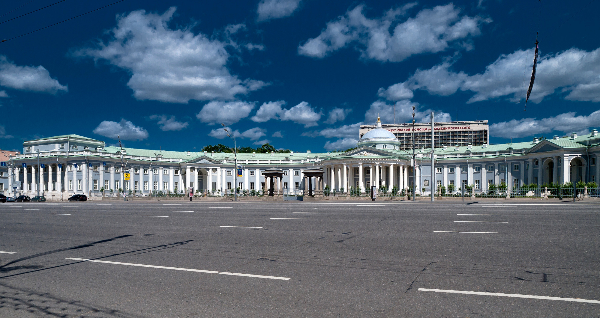 Bolshaya Sukharevskaya Square, Moscow.